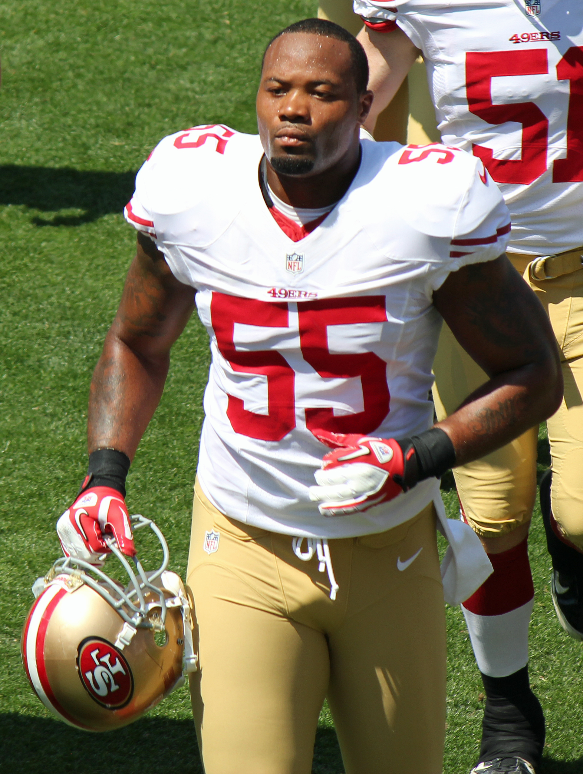 Ahmad Brooks, a player on the National Football League.